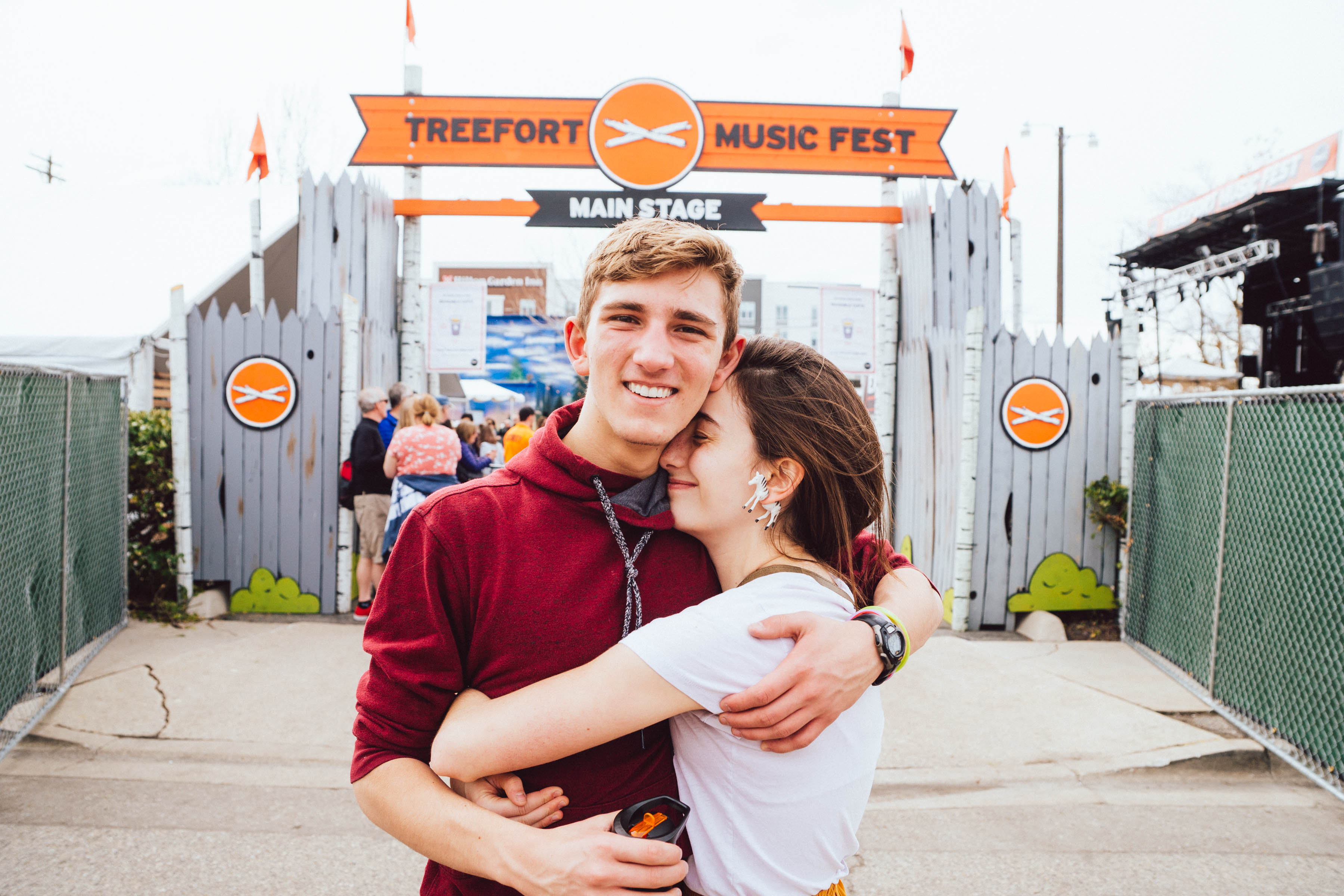 Treefort 2019